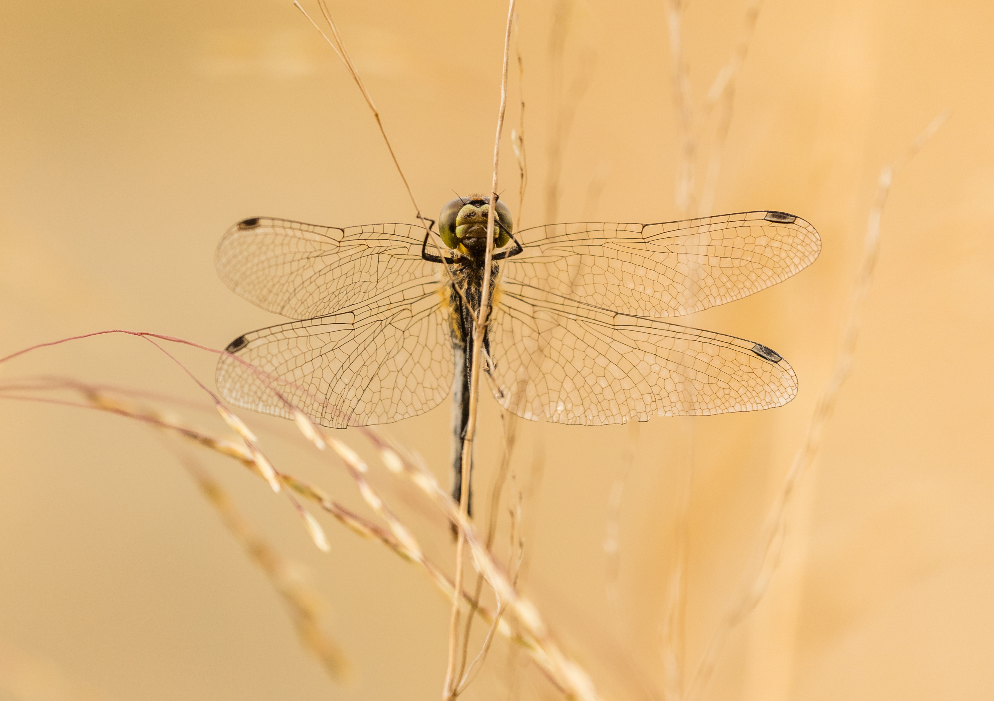 Female Black Darter (Sympetrum danae), Destruction Bay, Yukon, Canada